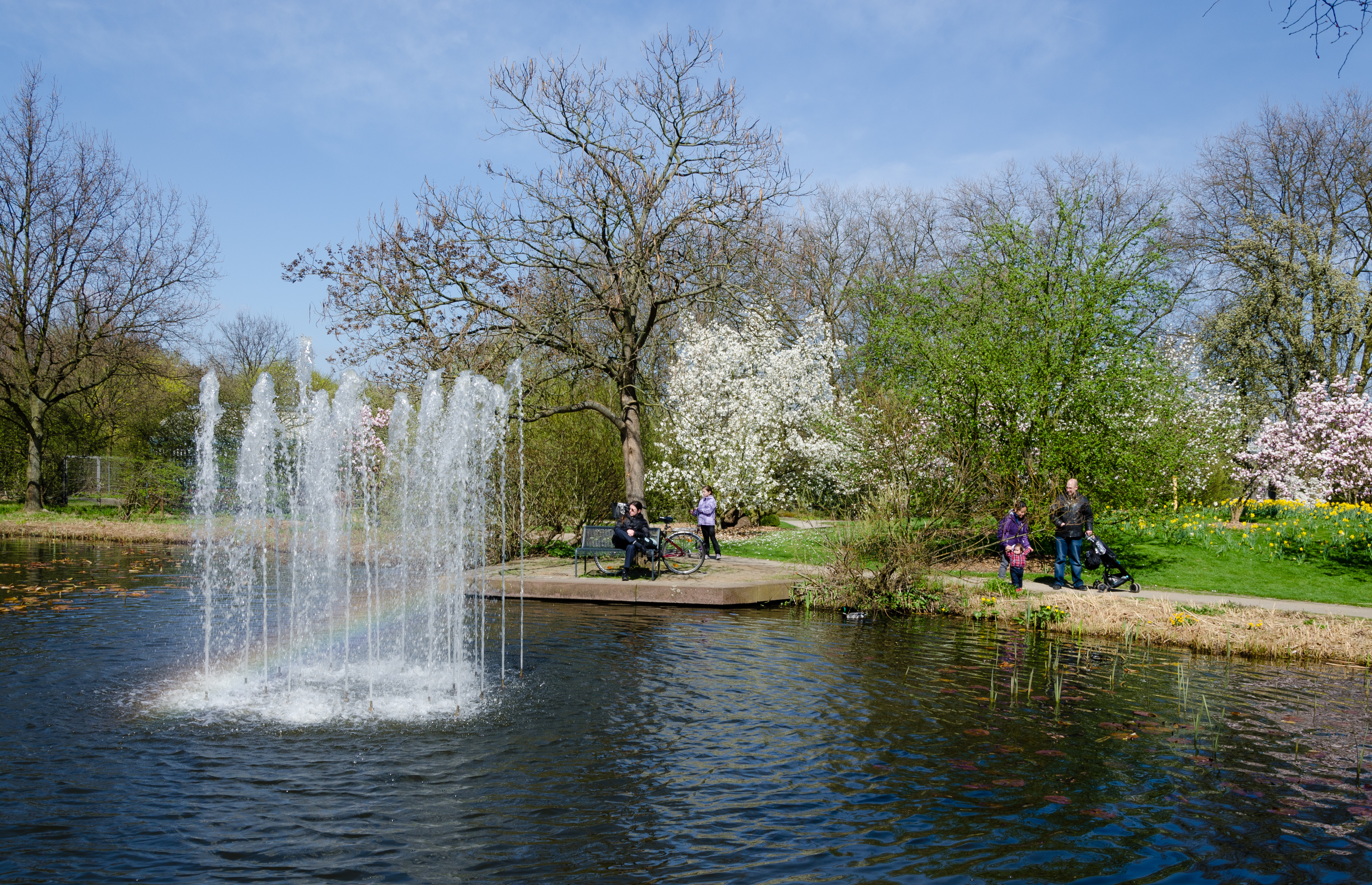 Spring mood at water place in MüGa park with seating facilities around the water in Mülheim an der Ruhr